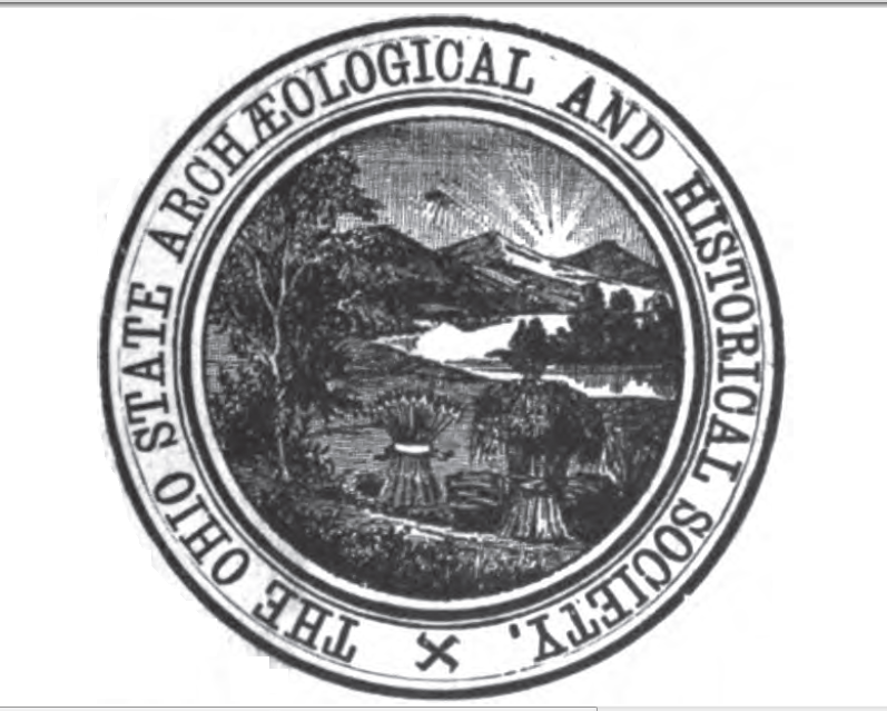 The seal of the predecessor to the Ohio Historical Society from 1898.